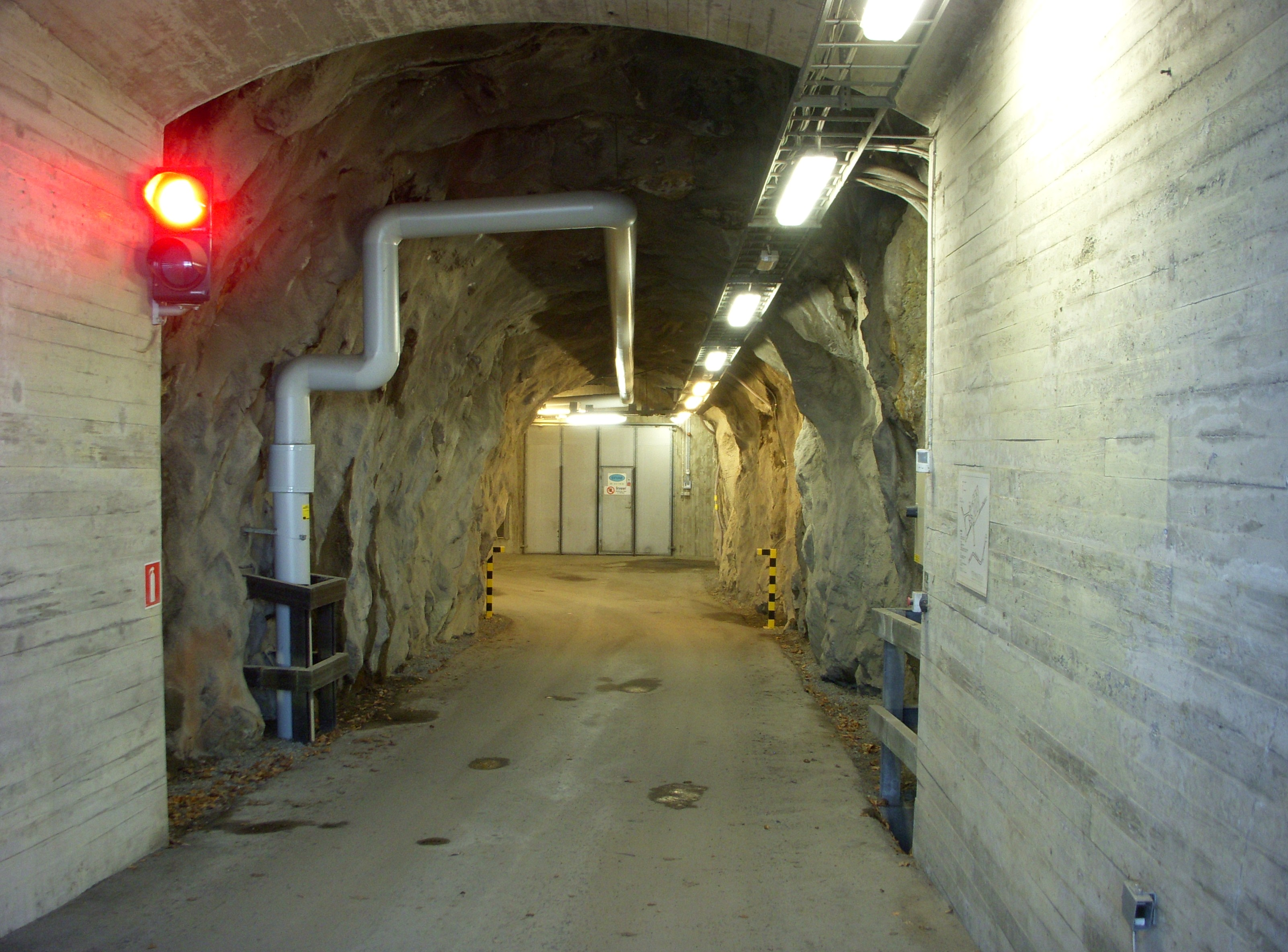 Infart till Eolshälls f.d. reningsverk